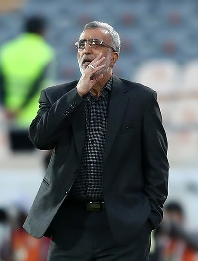 Hossein Faraki, head coach of Sepahan